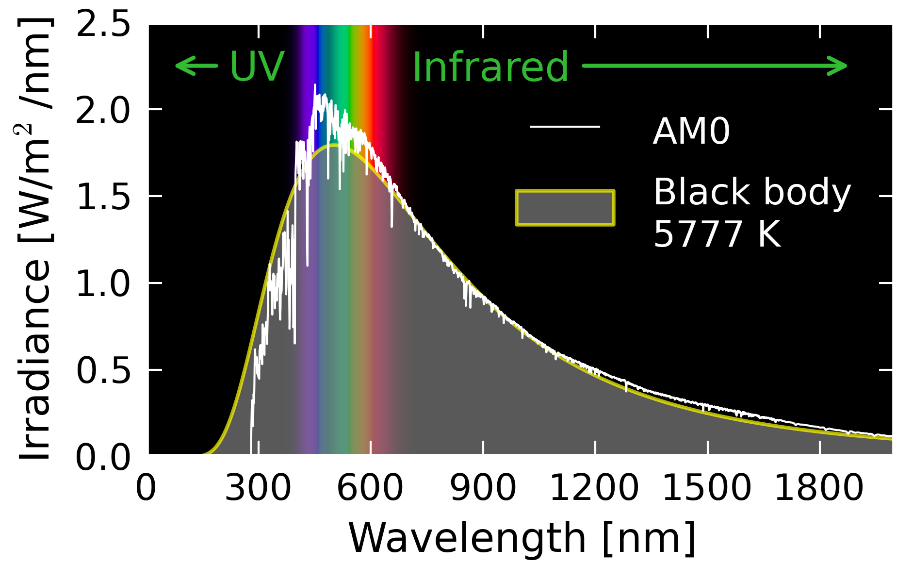 Solar AM0 (Air Mass Zero) spectrum (Chris A. Gueymard 2002) as included in SMARTS 2.95, together with a blackbody spectrum for 5777 kelvin and solid angle 2.16e-5*π steradian for the source (the solar disk). The visible region of the electromagnetic spectrum is shown using the CIE visible spectrum as implemented in ColorPy by Mark Kness (2008). Figure with English labels.